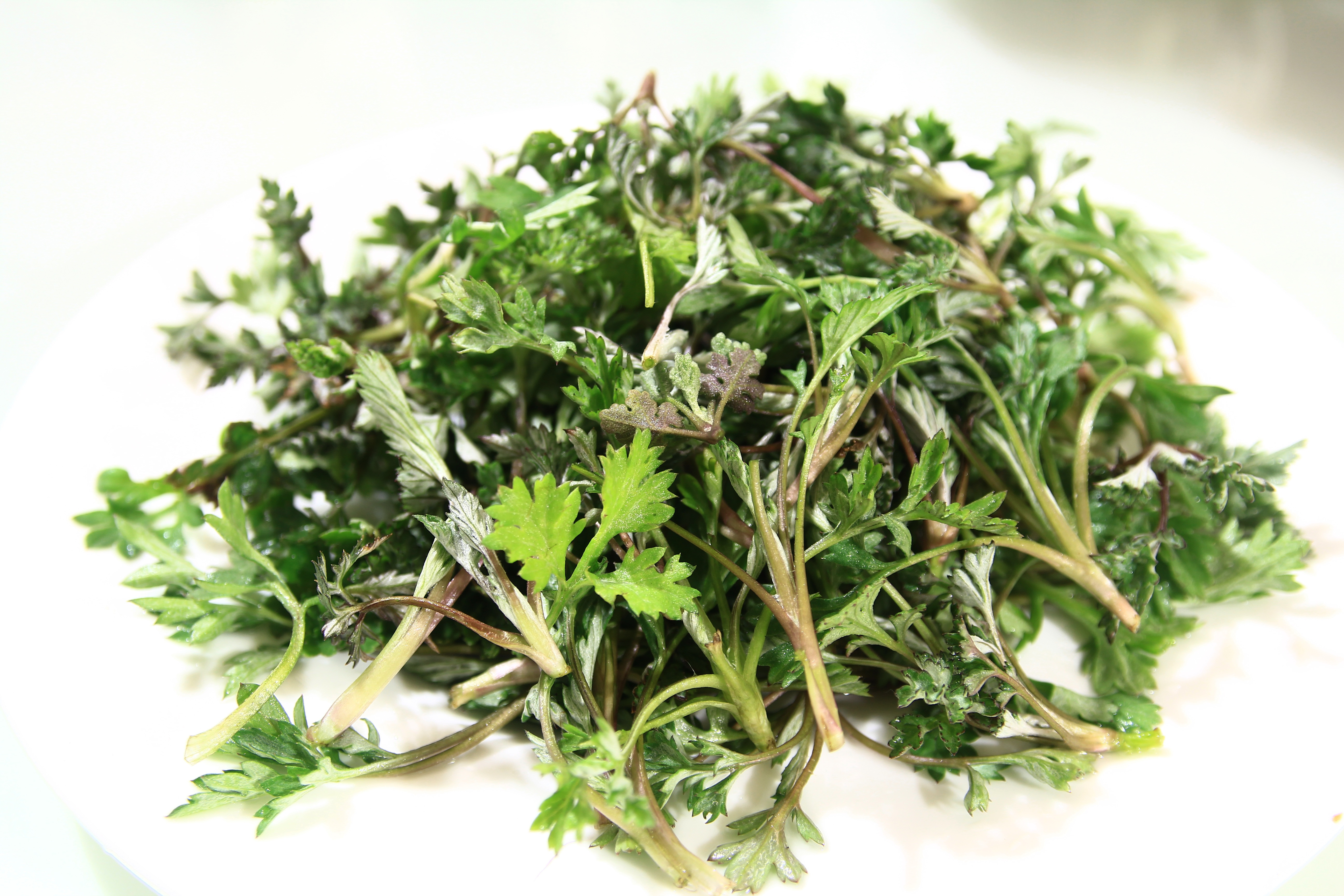 Korean wormwood(Artemisia princeps)